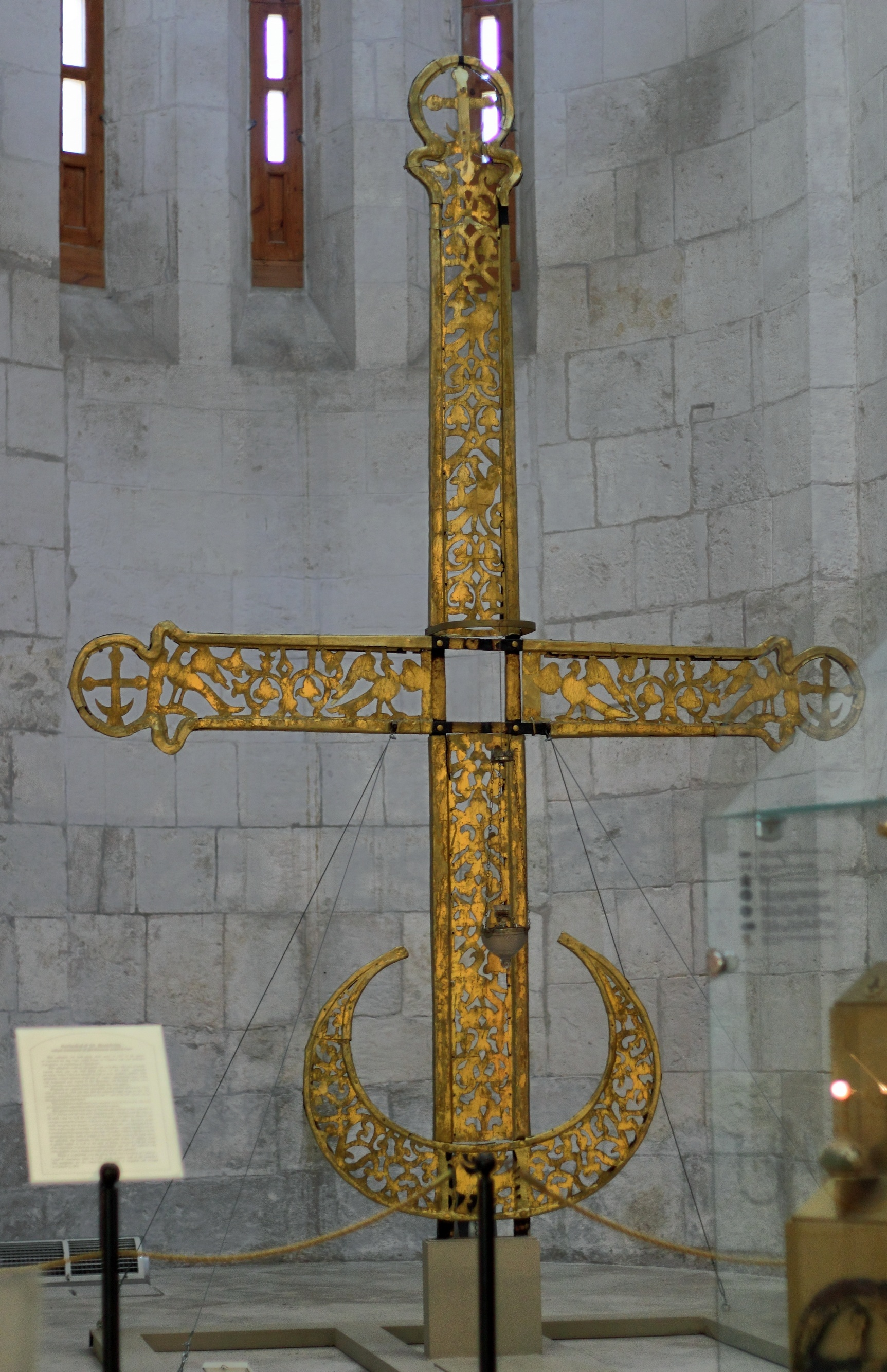 Vladimir. Cathedral of Saint Demetrius. Cross